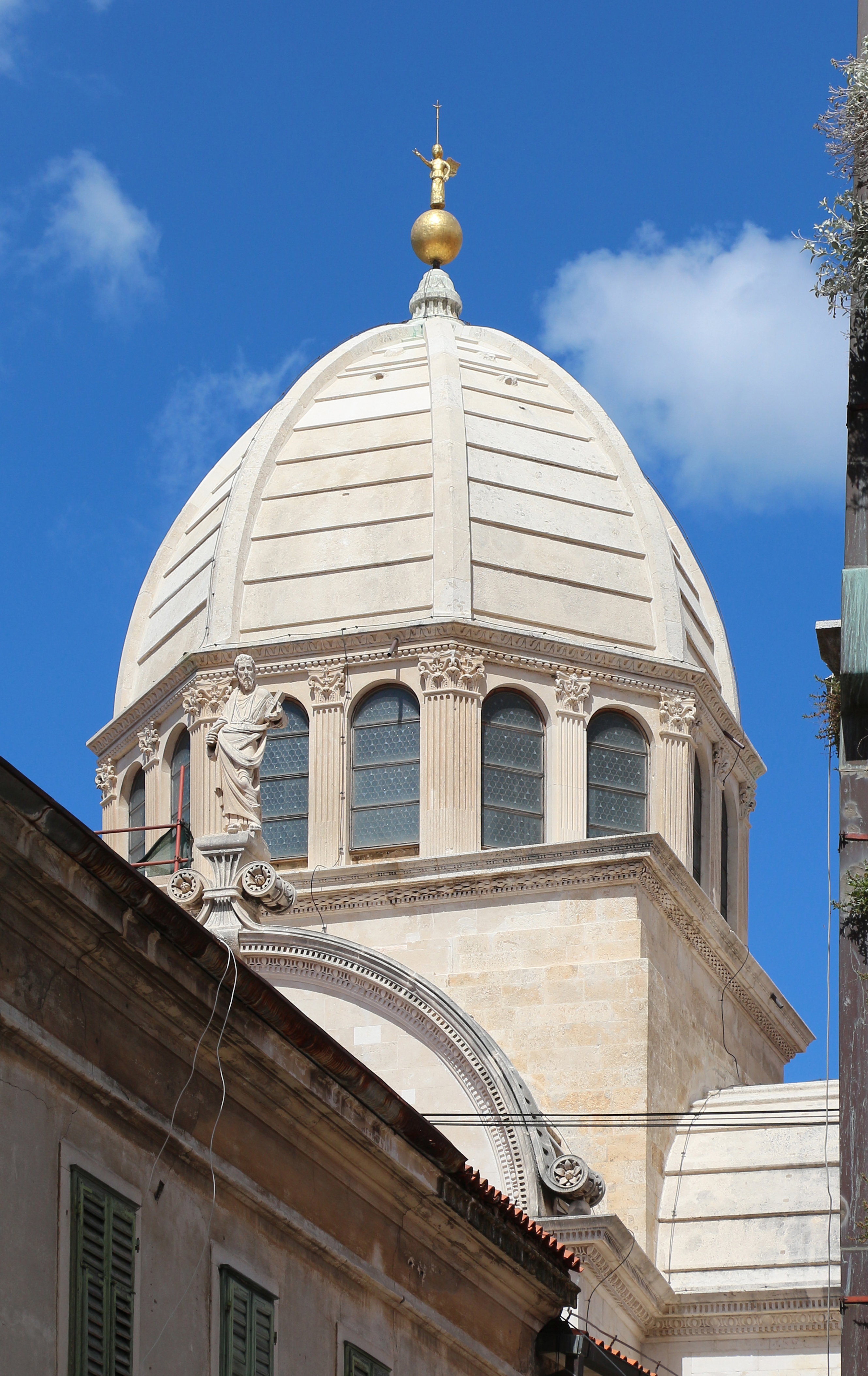 Dome of Cathedral of St. James, Šibenik, Croatia